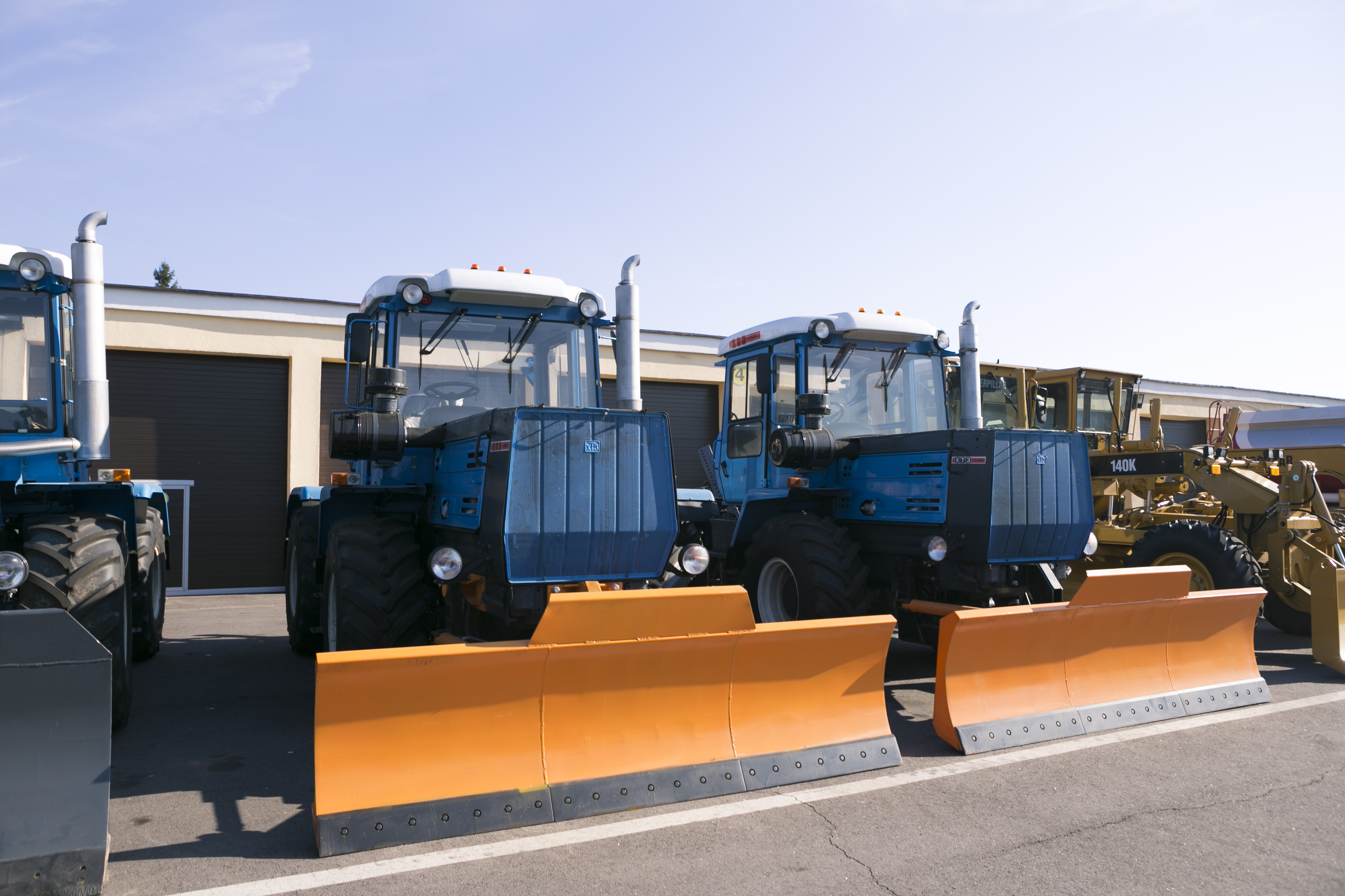 Assistant Secretary of State Victoria Nuland at a Ukrainian State Border Guard Service (SBGS) Base in Kyiv, Oct. 8, 2014